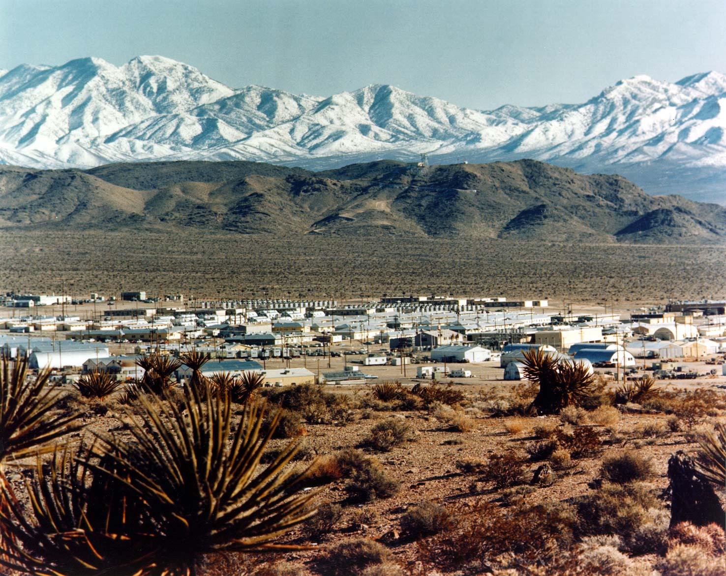 Mercury, the Main Base Camp at NTS, is linked to Las Vegas by U.S. Highway 95. The camp provides overnight accommodations for more than 950 people. It is a warehousing, communication, repair, fabrication and field administration center. Facilities include a hospital, theater, bowling alley, cafeteria, and post office. There are no schools or family housing. The large plants in the foreground are Yuccas, part of the Lily family.